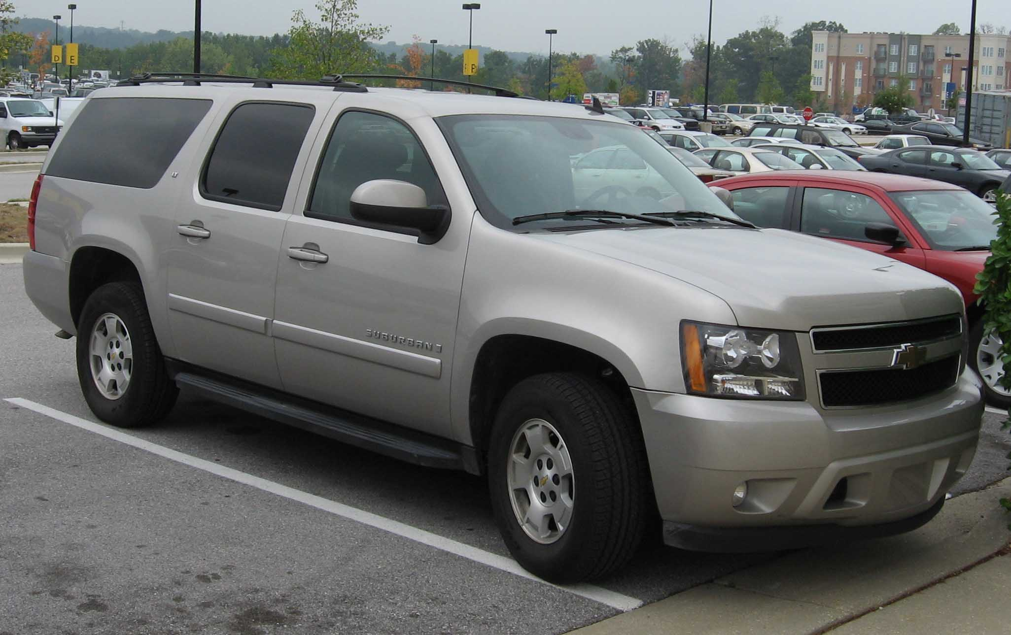 2007 Chevrolet Suburban photographed in USA.